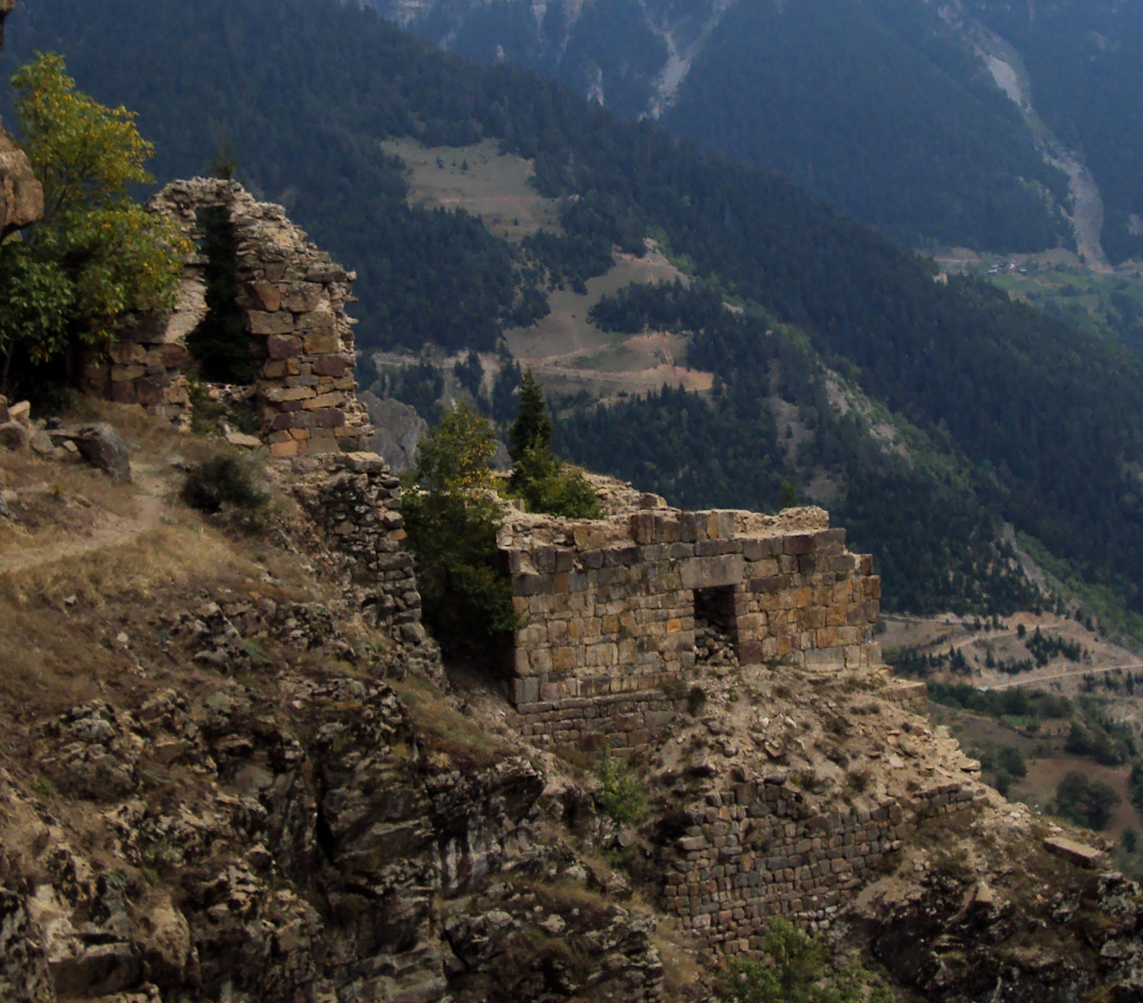 Parekhi monastery